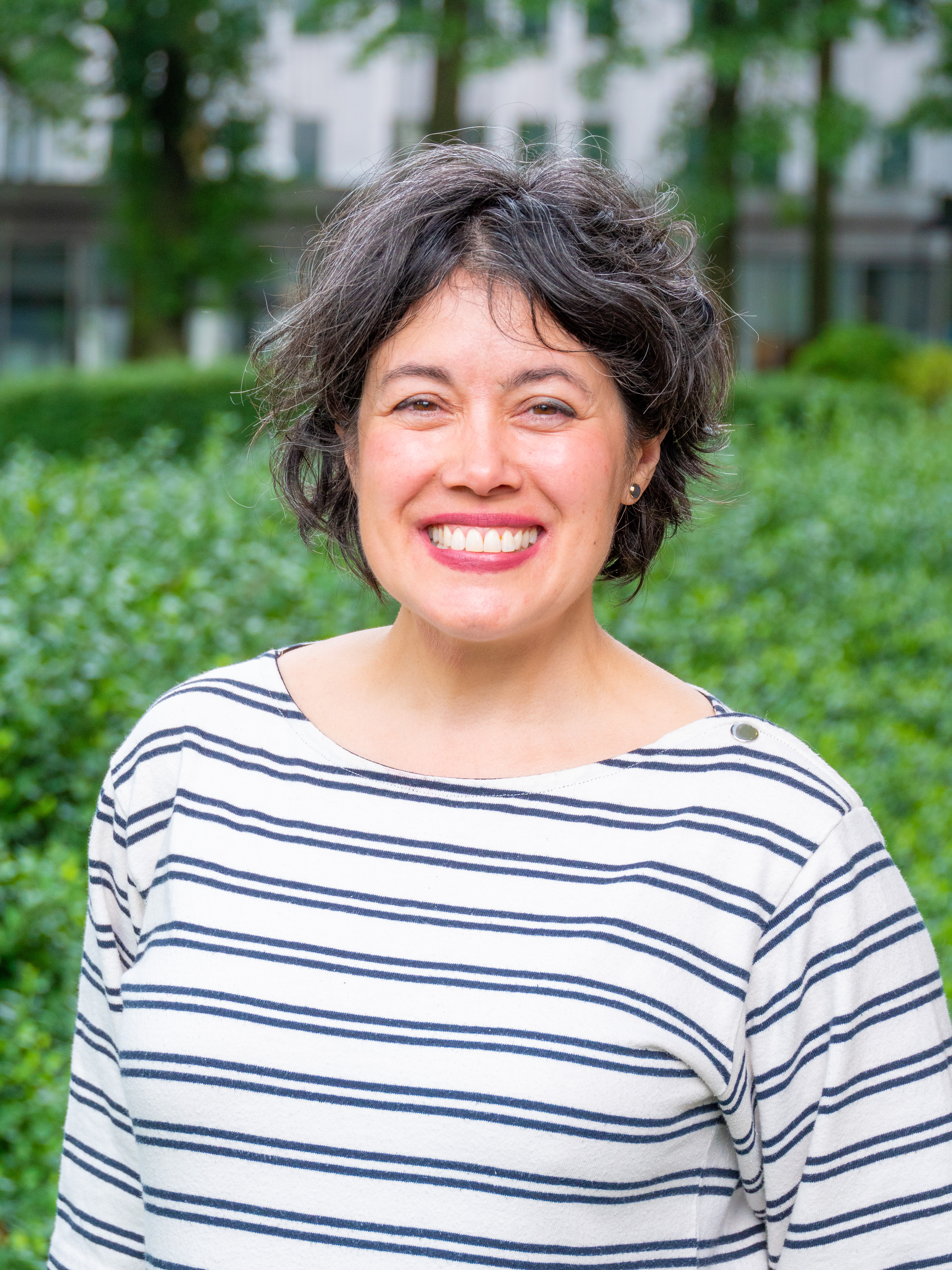 Caterina Fake, entrepreneur and co-founder of Flickr.